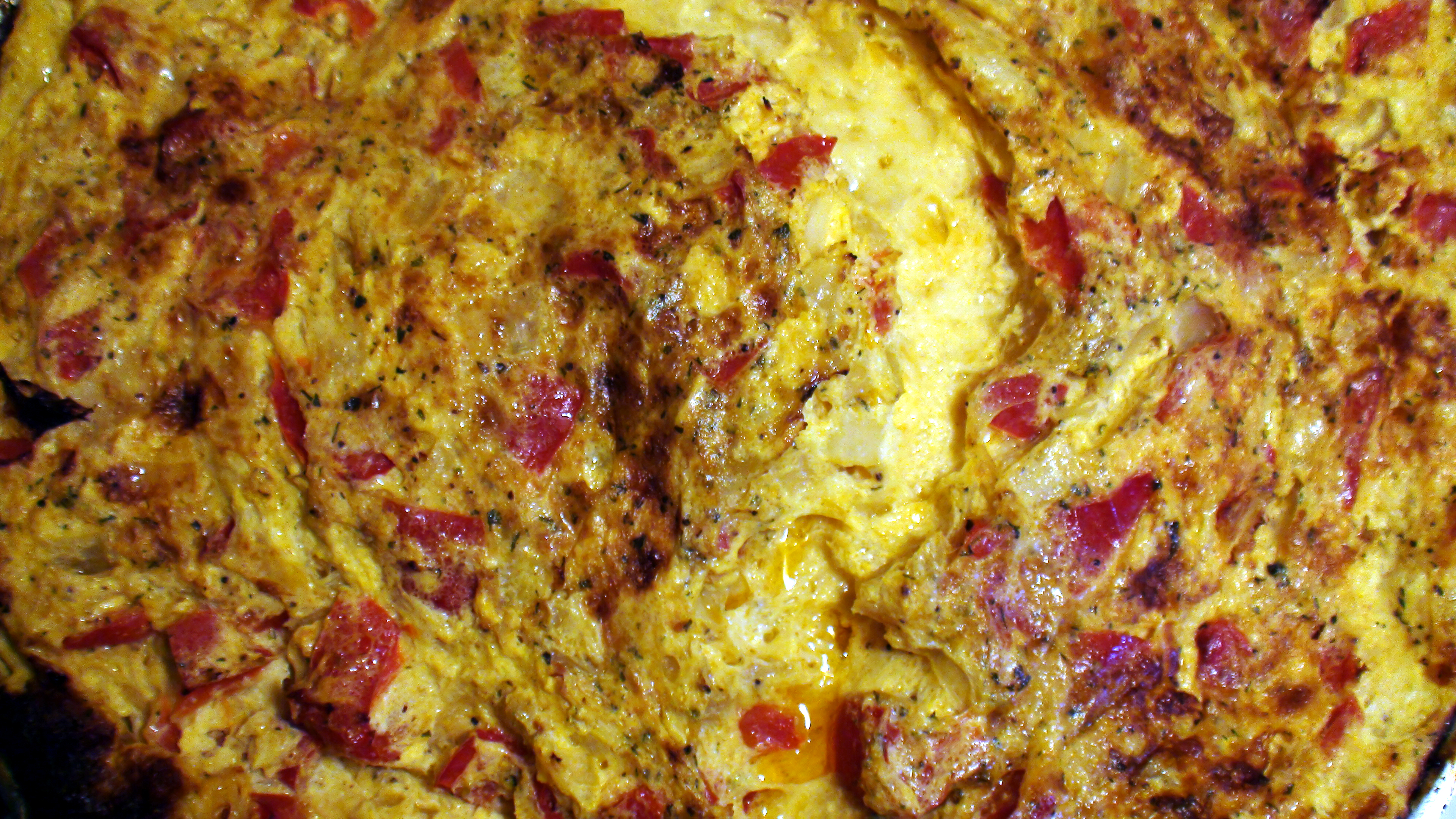 Even though this is the 4th of July weekend, I am going to be very technical and title this my "3rd of July Omlette"! It is made of a lot of onion and red bell pepper mixed with egg substitute and parmesan cheese and salt free seasoning (which usually contains some garlic, dill, black pepper, paprika, basil, rosemary and oregano.)